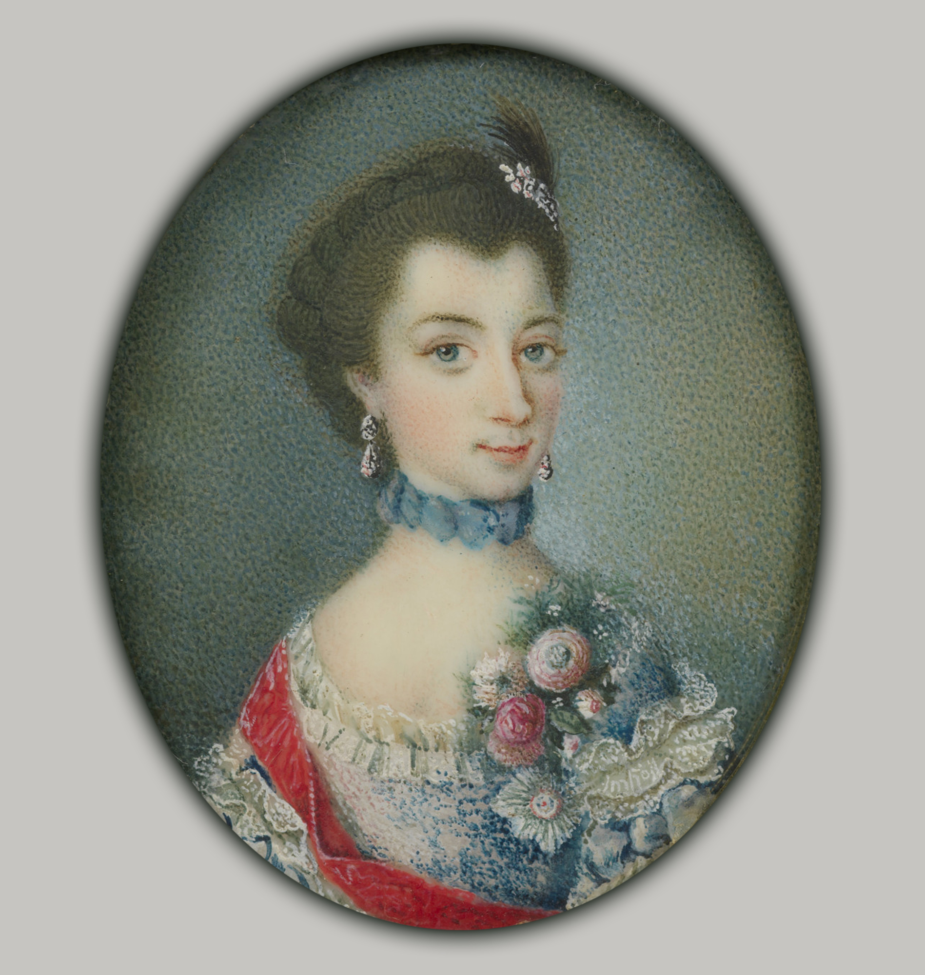 Princess Christina of Mecklenburg-Strelitz (1735-1794) Duchess Christina (1735-94) was the eldest daughter of Duke Charles I, Duke of Mecklenburg-Strelitz and sister of Queen Charlotte. Here she is wearing the ribbon and star of the Russian Order of St Catherine. The Order of Saint Catherine was founded by Peter the Great in 1714 in honour of his wife, the Empress Catherine. The Order was only awarded to ladies of the highest distinction in Europe and there were two classes; The Grand Cross, which entitled the bearer to wear a star and badge of the Order, and the Small Cross, which carried the right to wear the badge only. As a dame of the first class, Duchess Christina wears the sash over their right shoulder – the badge, which would be attached to a bow embroidered with the motto of the order at her waist, is not visible here. The eight-pointed star was made of silver, set with diamonds, and in the centre was a silver cross on a scarlet enamel background, surrounded by gold letters reading in Russian ‘For Love and For the Fatherland’. The identity of the artist is not known.